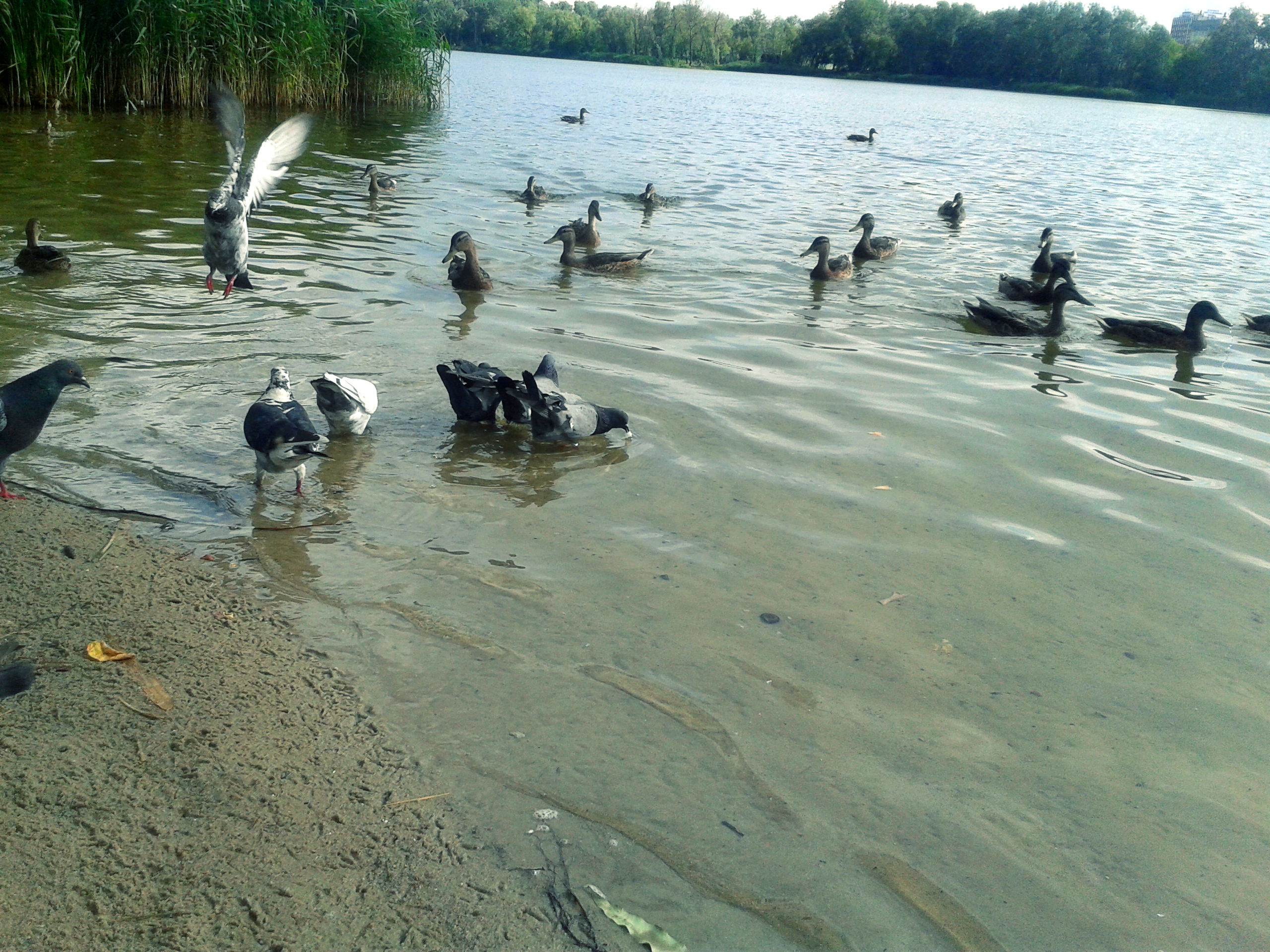 Иорданское озеро — система озёр Опечень на Оболони (Киев, 2015). Русло летописной реки Почайна.